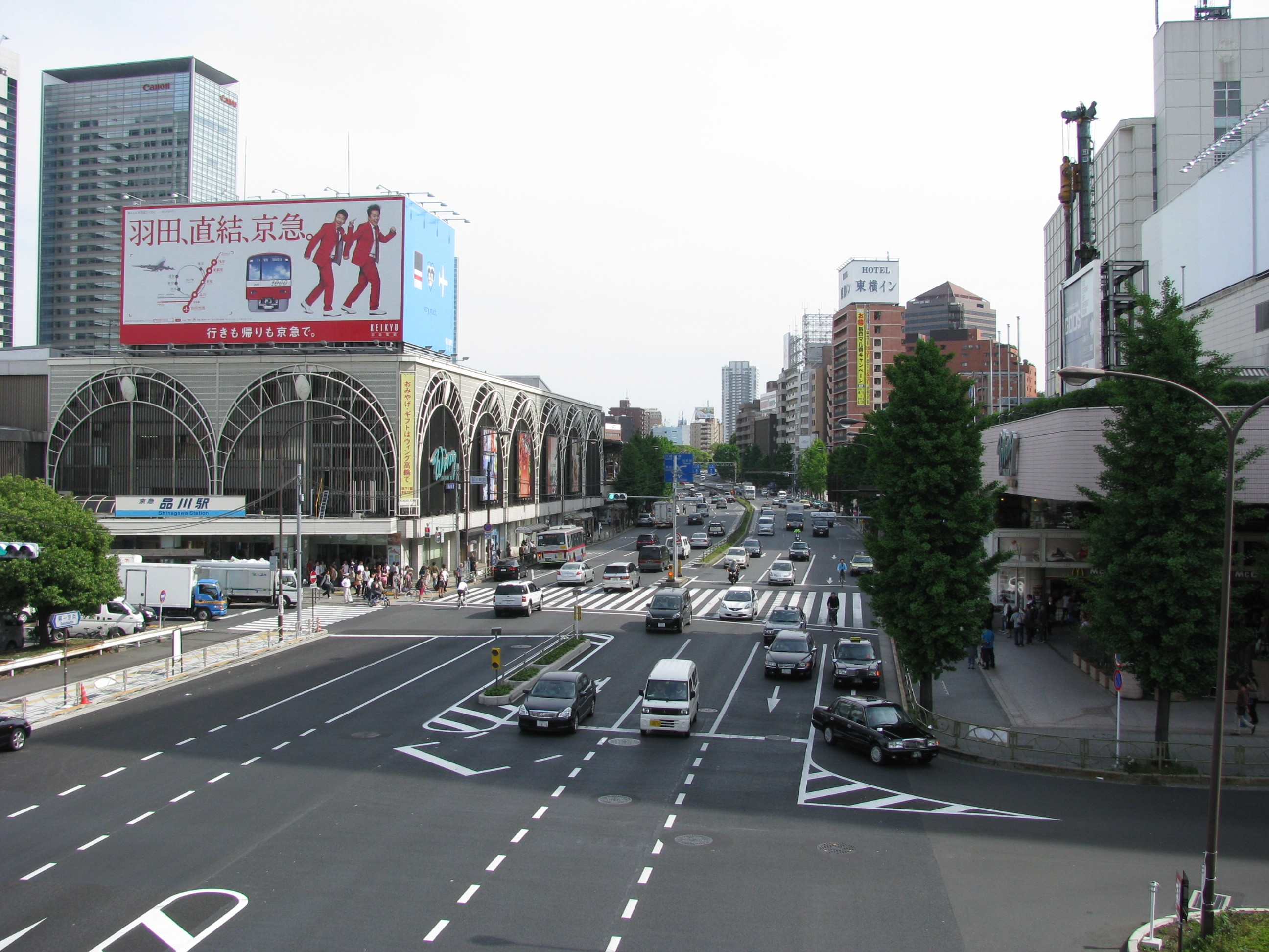 The Japan National Route 15. This locaion is Takanawa in Minato, Tokyo, Japan.